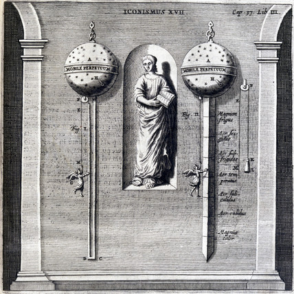 Guericke's air thermometer. A plate from Otto von Guericke's Experimenta Nova Magdeburgica.